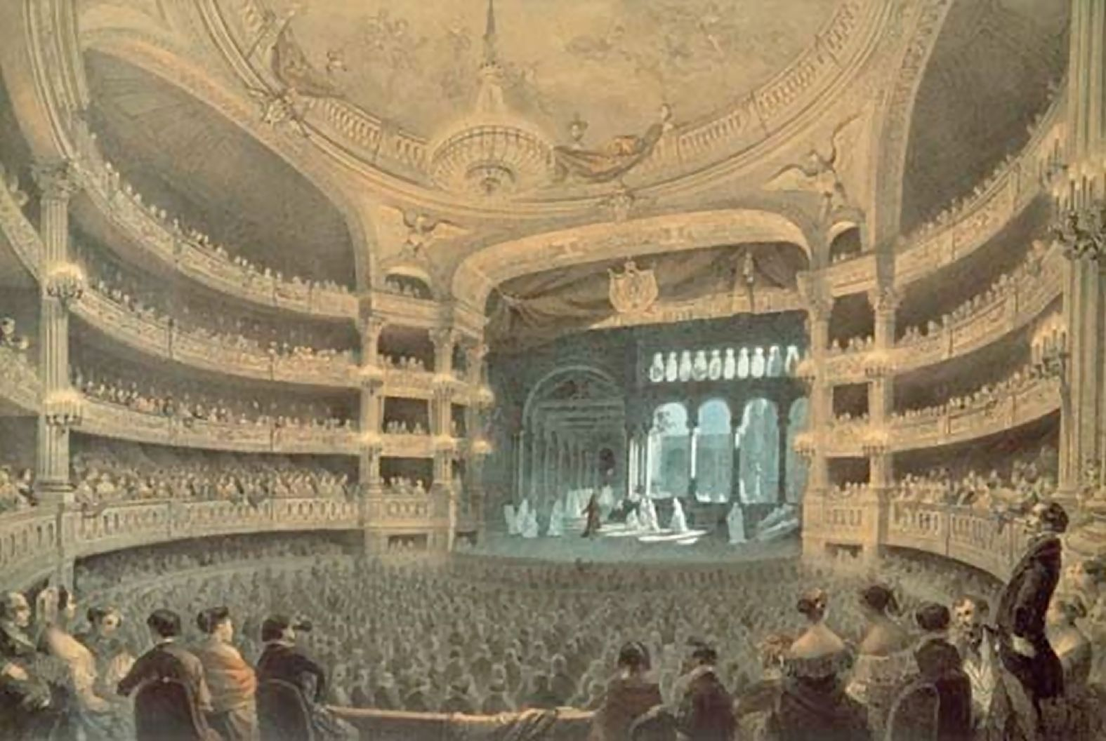 Performance of Meyerbeer's Robert le Diable in the Paris Opera House. Colored lithograph by Jules Arnout, circa 1850